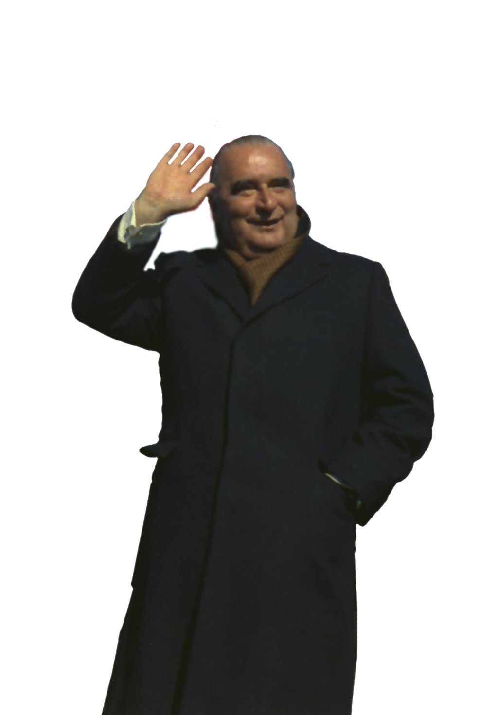 US President Nixon and French President George Pompidou prior to U.S. French summit conference in Reykjavik, Iceland